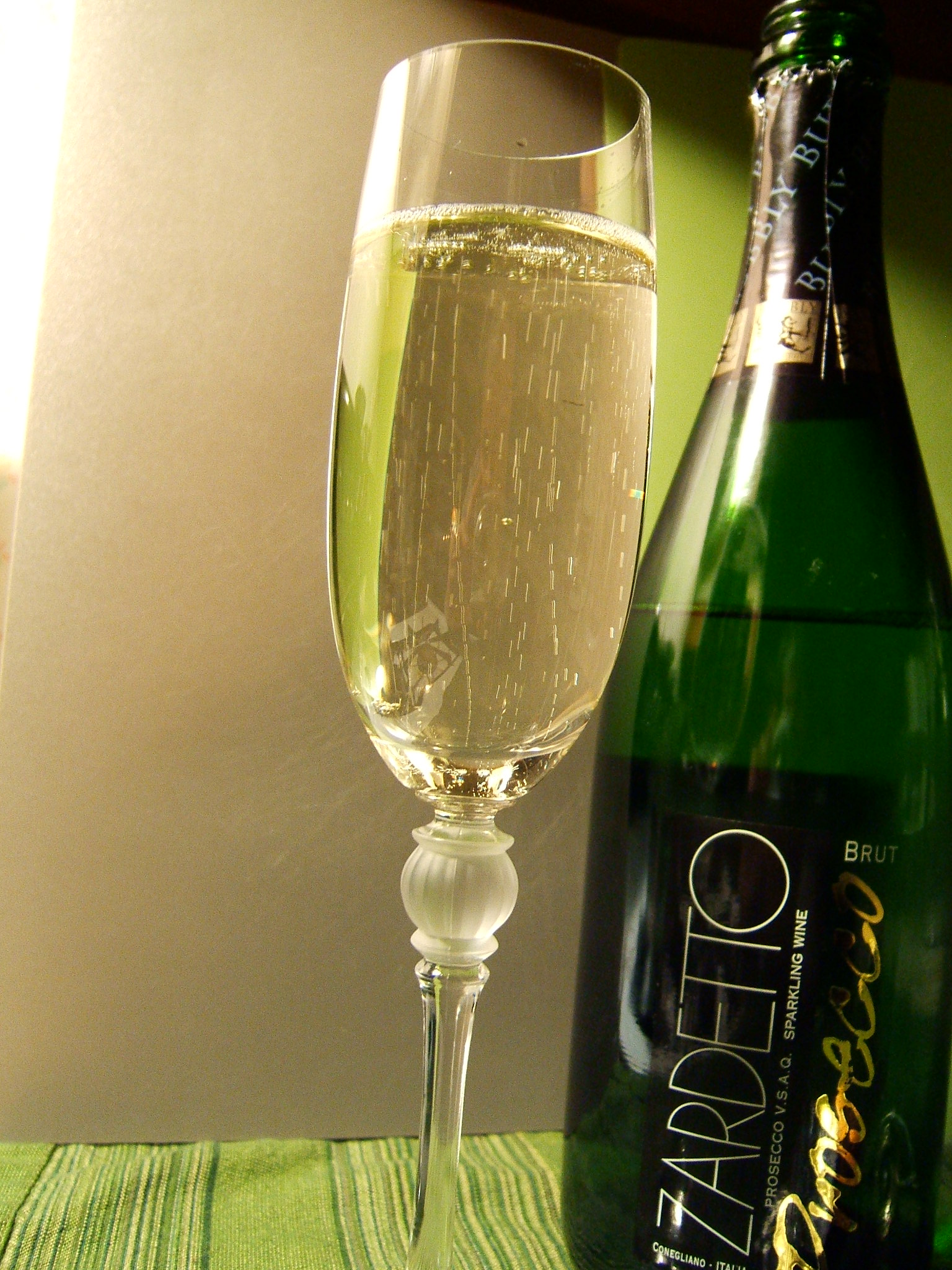 Italian sparkling wine Prosecco from the north east Italian wine region of Veneto.